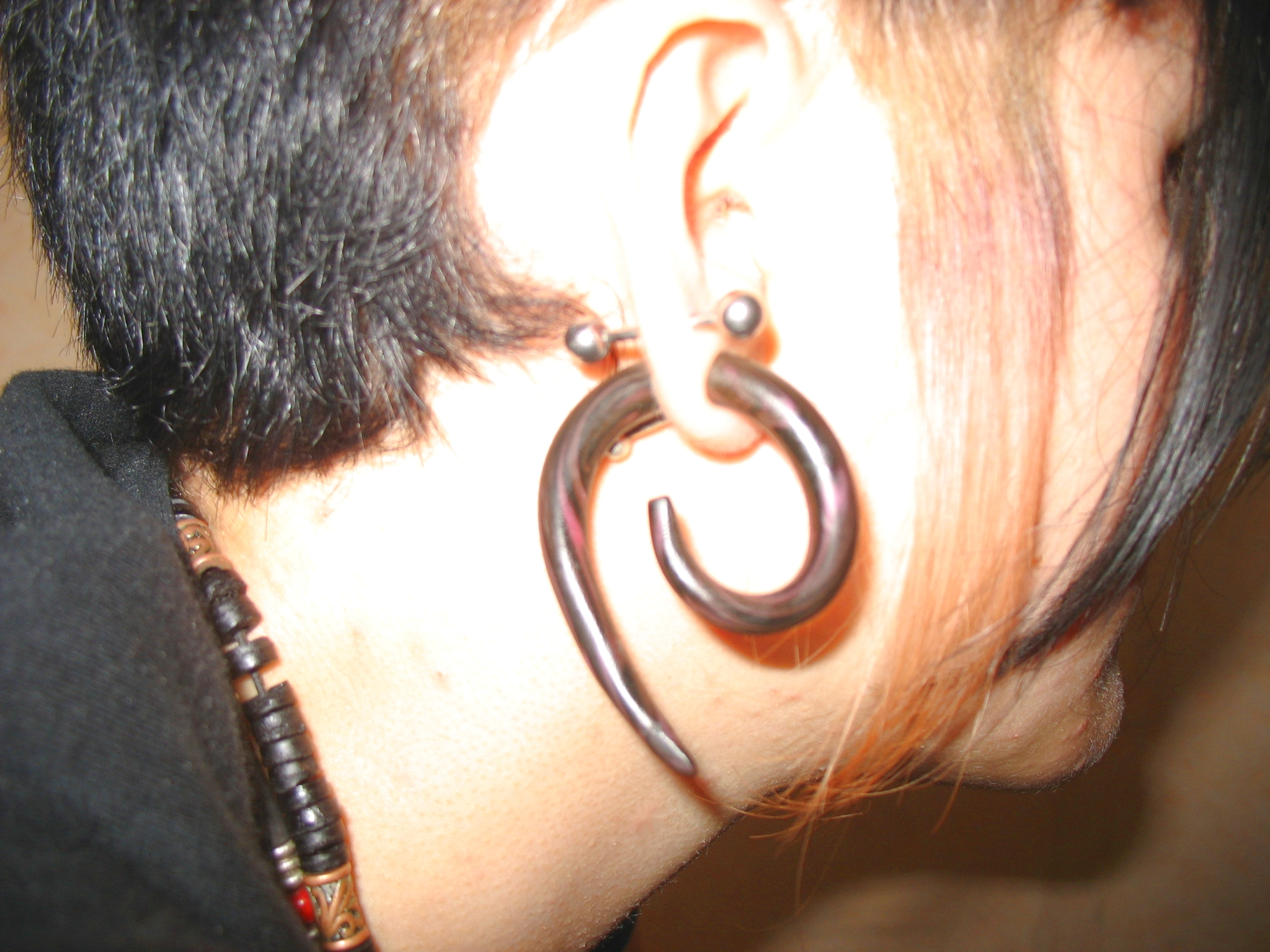 ear piercing widener